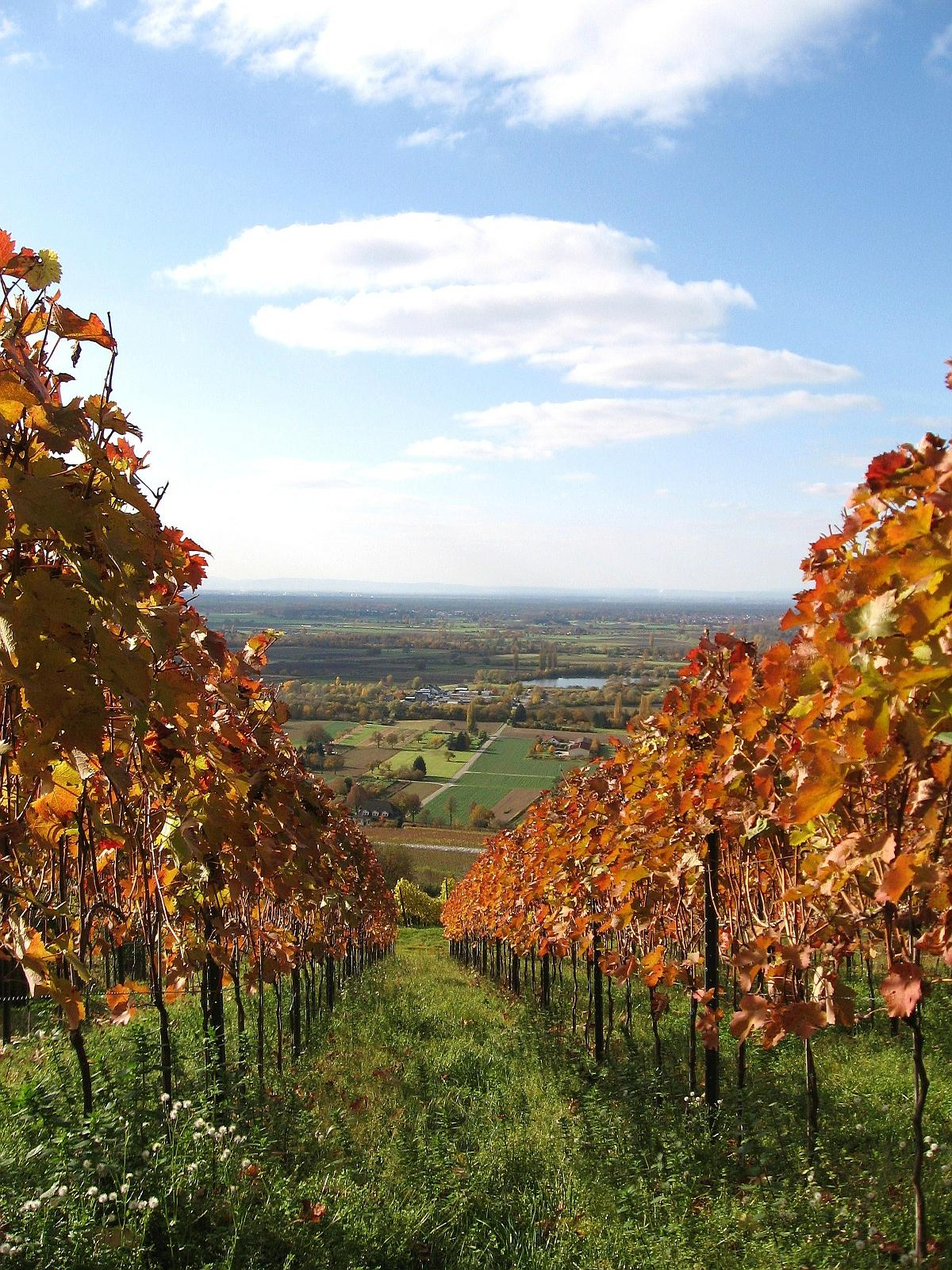 Germany / autumn at the Mountain Street